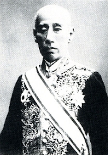 Date Munenari This photographic image was published before December 31st 1956, or photographed before 1946, under jurisdiction of the Government of Japan. Thus this photographic image is considered to be public domain according to article 23 of old copyright law of Japan (English translation) and article 2 of supplemental provision of copyright law of Japan. To uploader: Please provide an image source.